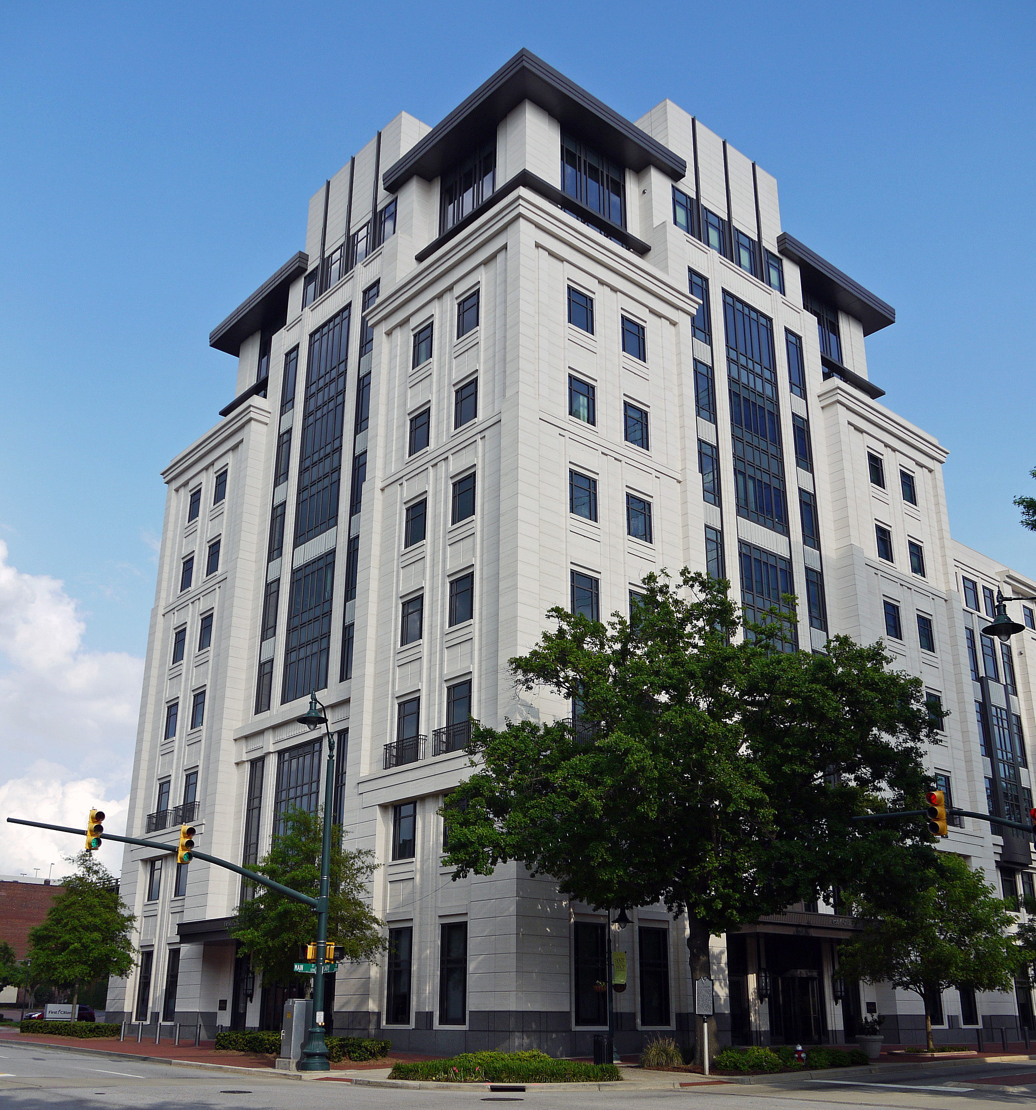 First Citizens Bank headquarters building, downtown Columbia, South Carolina, USA